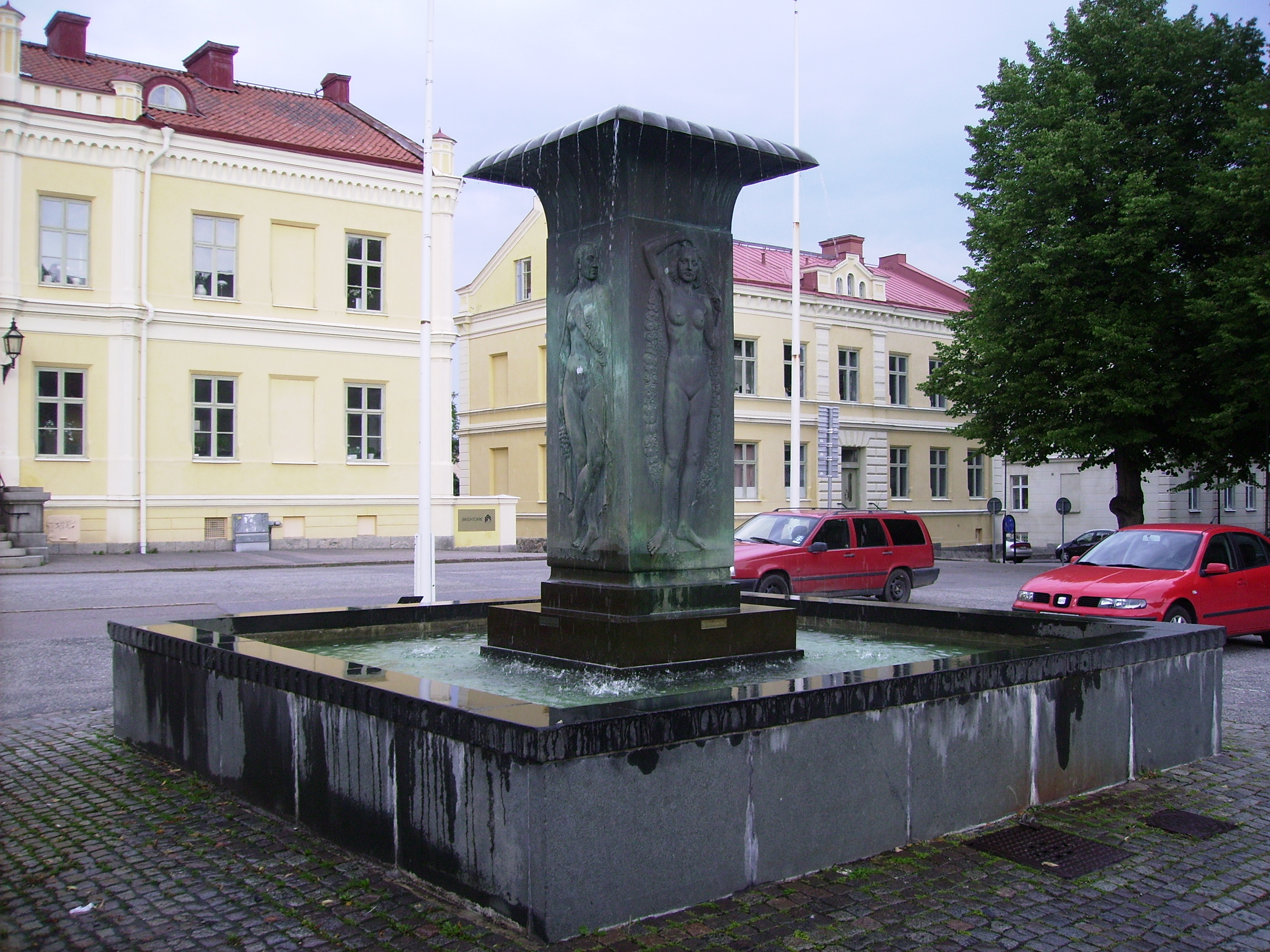 Picture of Olof Ahlberg's fontane in Strängnäs